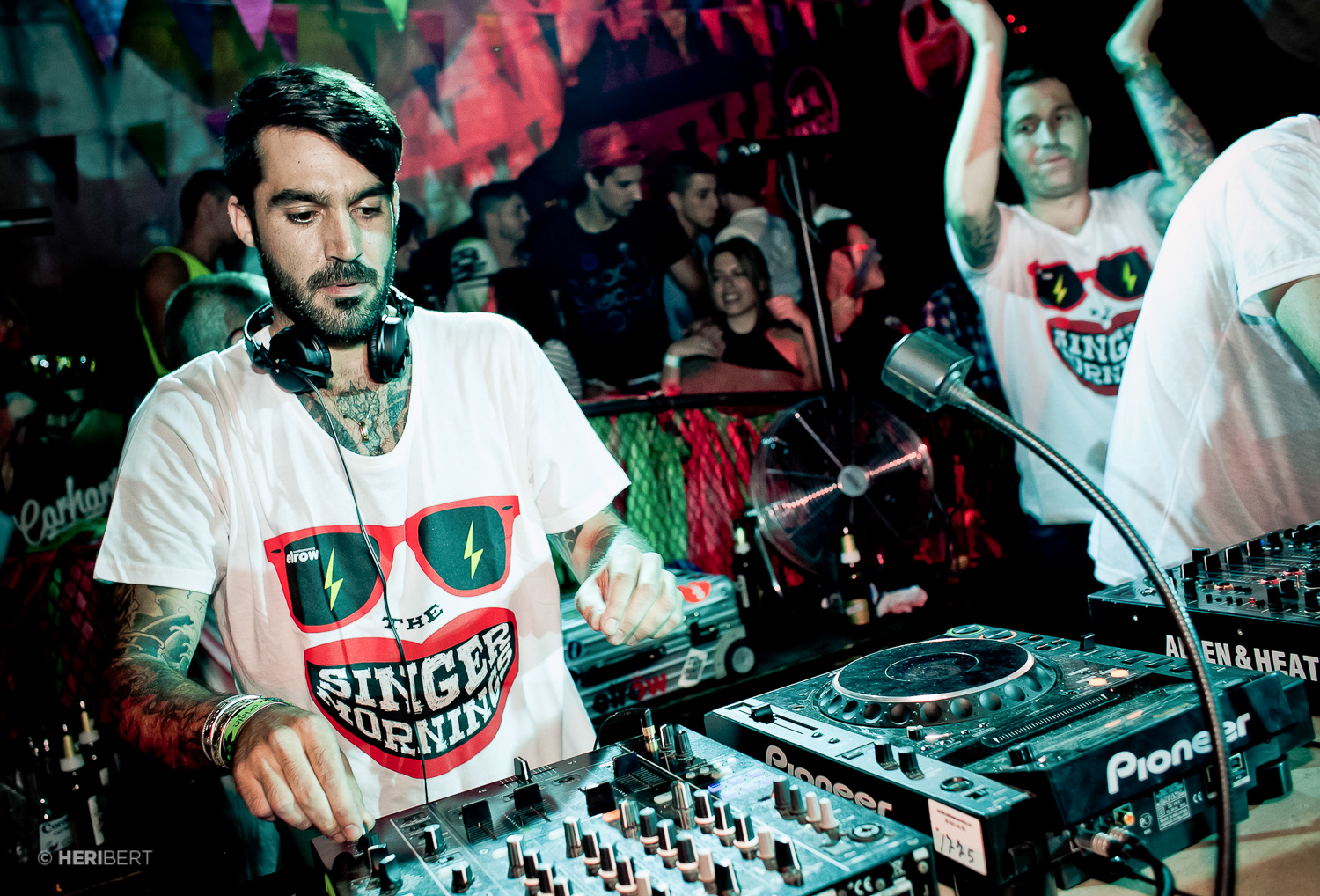 Fiesta de elrow en el club Florida 135, The Singer Morning Festival 29 de junio de 2013. En imagen, Marc Maya, DJ residente de elrow.